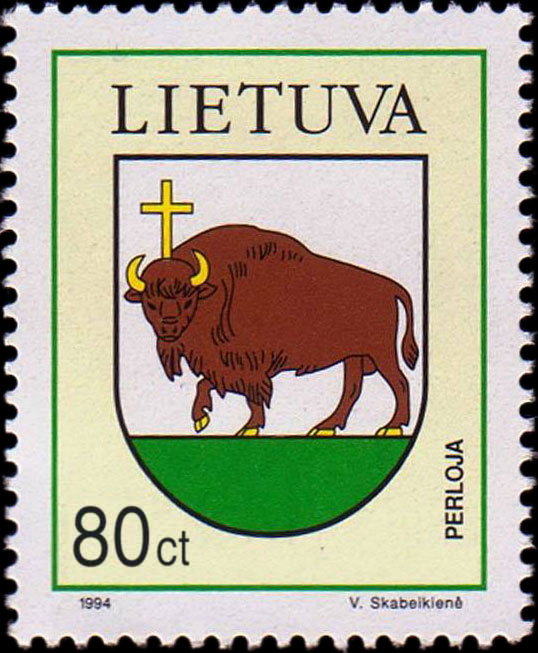 1994 Lithuania Post; 80 ct.; multicolored; representing Coat of arms of Perloja, Wisent - Bison bonasus; Series - Town Arms; Design - V. Skabeikienė; Printing run - 500 000.